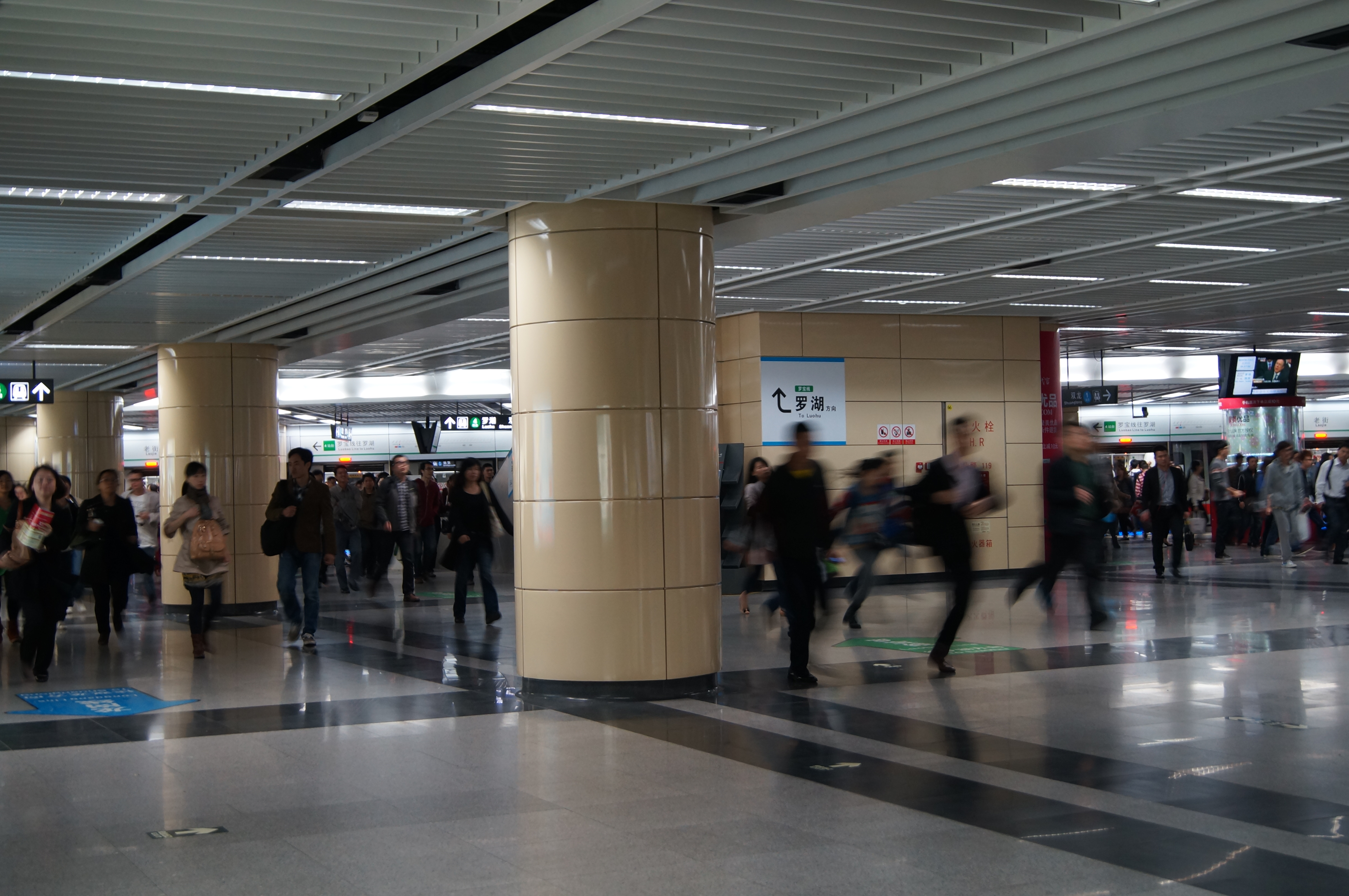 Crowd in Laojie Station. This is an cross-platform interchange station between Luobao Line and Longgang Line. During day-time rush hour, commuter are usually from Longgang Line train to Yitian, and change Luobao Line train to Airport East at the opposite platform; During night-time rush hour, commuter are usually from Luobao Line train to Luohu, and change Longgang Line train to Shuanglong at the opposite platform. This picture shows the scene in night-time rush hour, passenger are rushing out of the Luobao Line train to Luohu and run to the opposite Longgang Line platform to Shuanglong to get to the front of the queue.